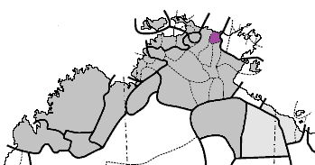 Maningrida (Burraran) languages (purple), among other non-Pama-Nyungan languages (grey)